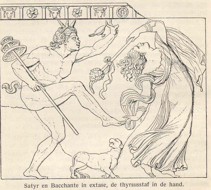 Satyr en bacchante